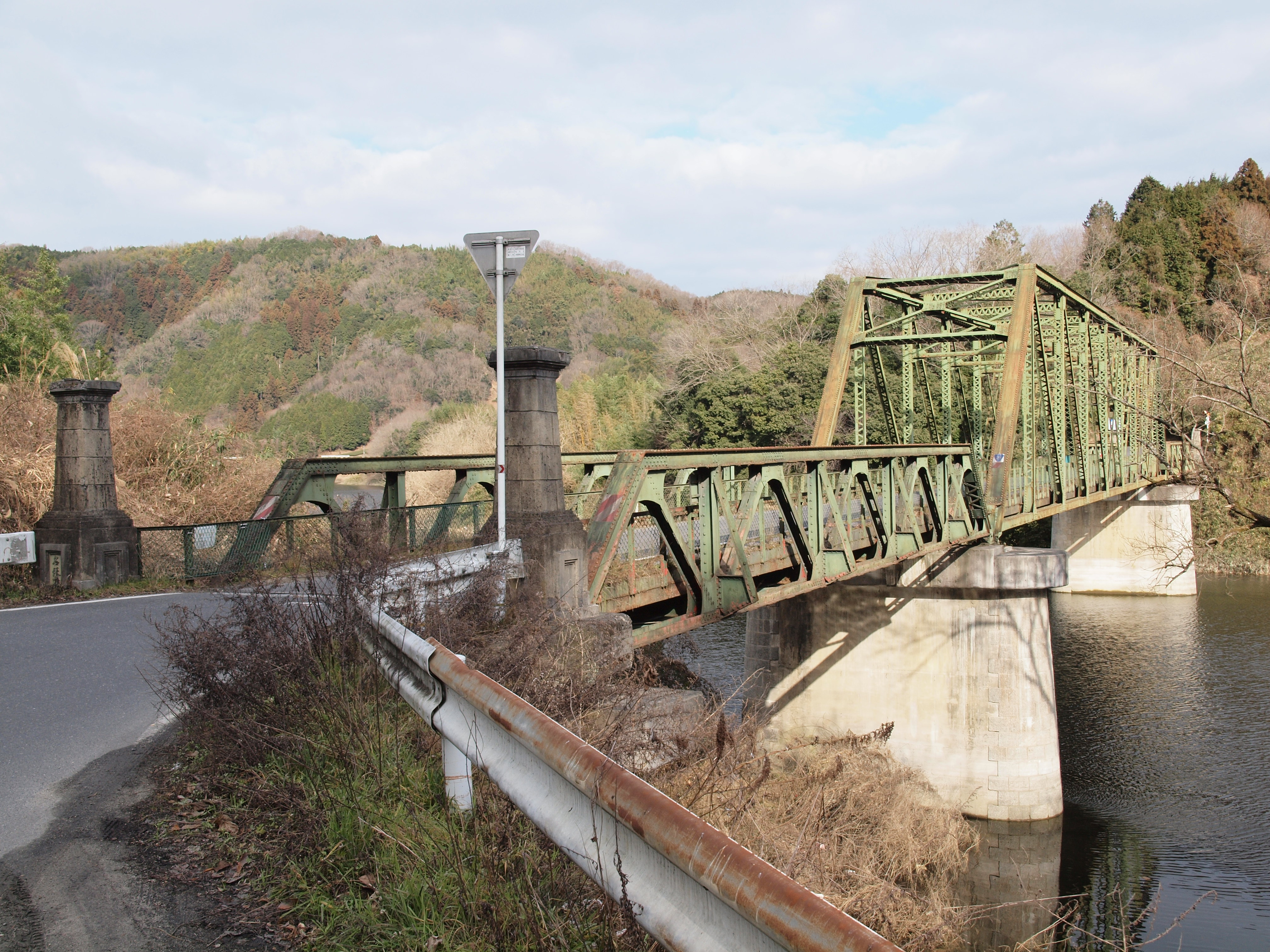 Satsuki-Bashi (Bridge) between Yamazoe, Nara to Iga, Mie